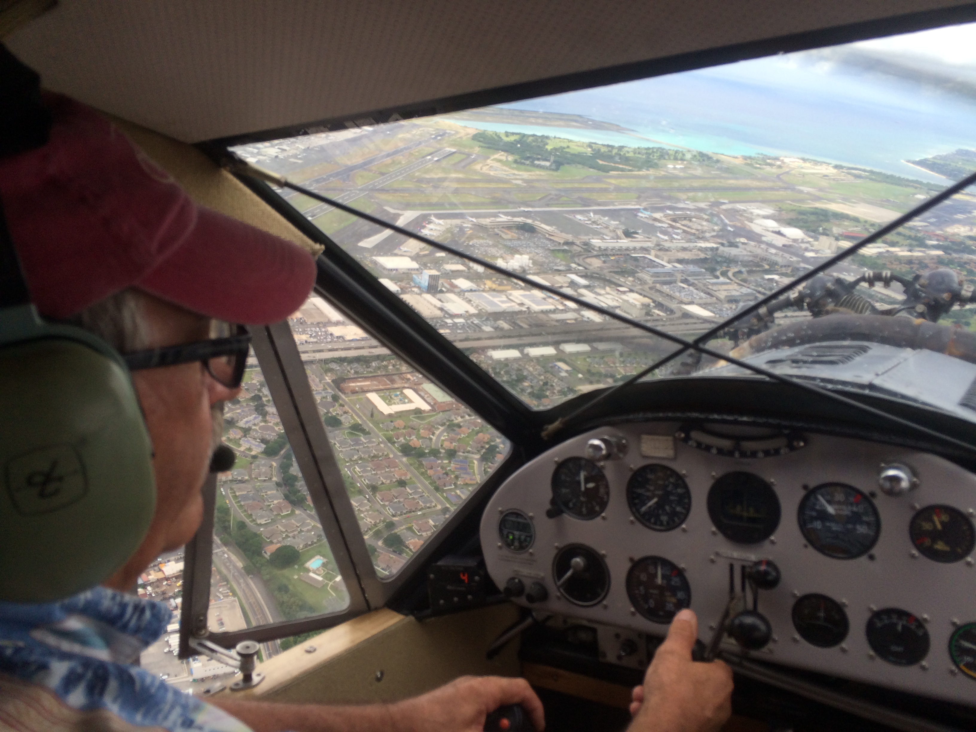 Hawaiian Airlines' 1929 Bellanca Pacemaker interior over Hawaii International Airport (HNL).